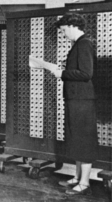 ENIAC (Electronic Numerical Integrator And Computer) in Philadelphia, Pennsylvania. Glen Beck (background) and Betty Snyder (foreground) program the ENIAC in building 328 at the Ballistic Research Laboratory (BRL).